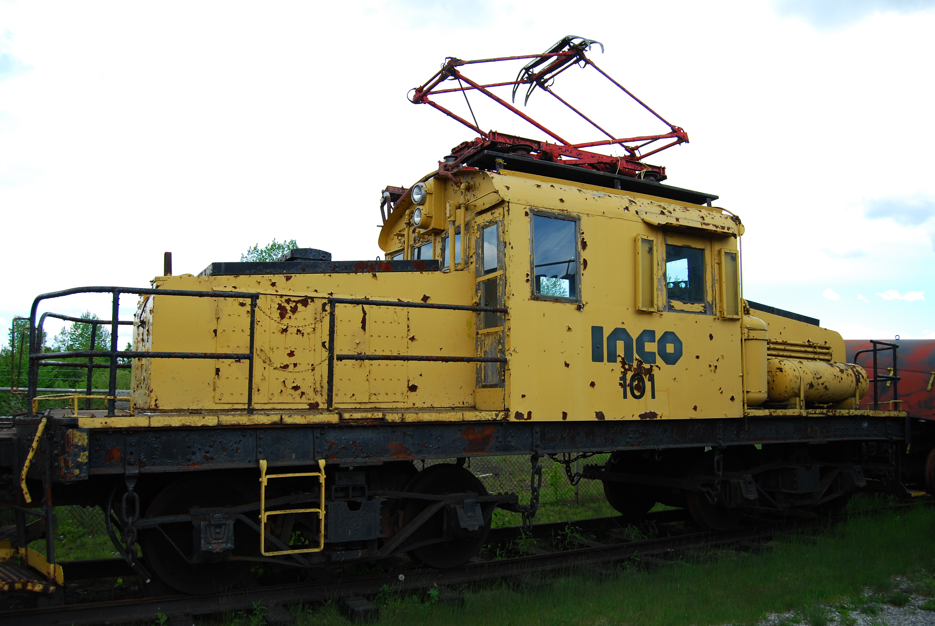 INCO electric engine on display. Built by Westinghouse/NSC in 1919, acquired 7/1926. 400 hp, 50-ton, 600v electric, Ex Weland Canal Co. #E-12, Retired 1998, per